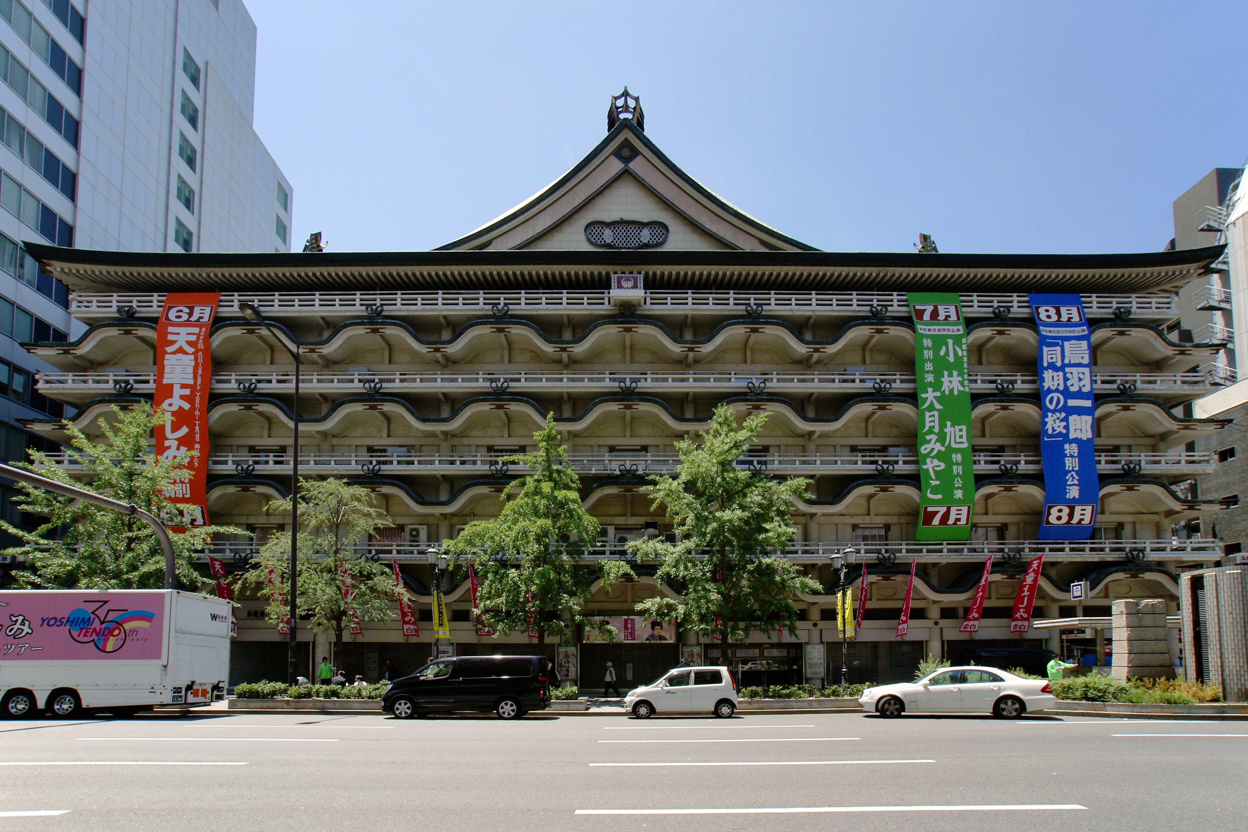 Shin-Kabukiza in Osaka, Osaka prefecture, Japan